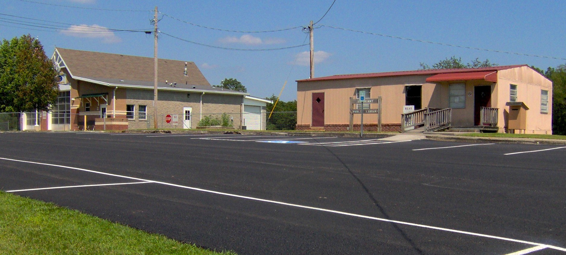 The fire hall and library in Sunbright, Tennessee, in the southeastern United States.